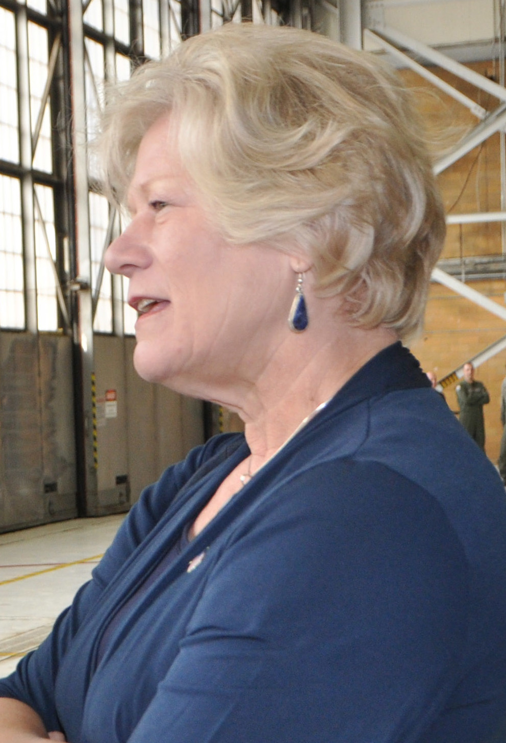 Minnesota Lieutenant Governor Carol Molnau (right) talks with Senior Airman Kurt Larson, his wife Brittany and son Owen before Airman Larson's deployment to Southwest Asia Sept 10. (Air Force Photo/Paul Zadach)